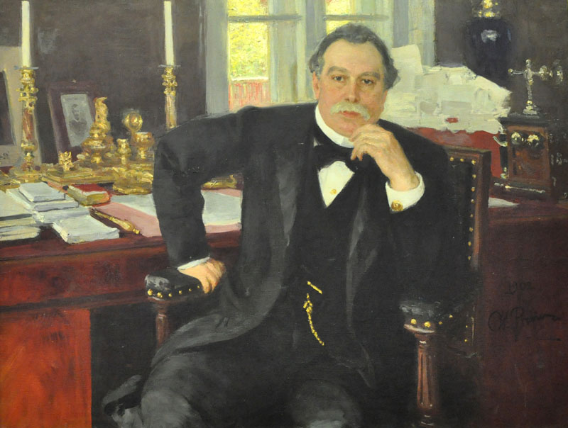 Portrait of Minister of the Interior Vyacheslav Konstantinovich von Pleve.